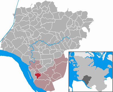 This map shows the area of the municipality Engelbrechtsche Wildnis in the Kreis (district) Steinburg, Schleswig-Holstein, Germany.